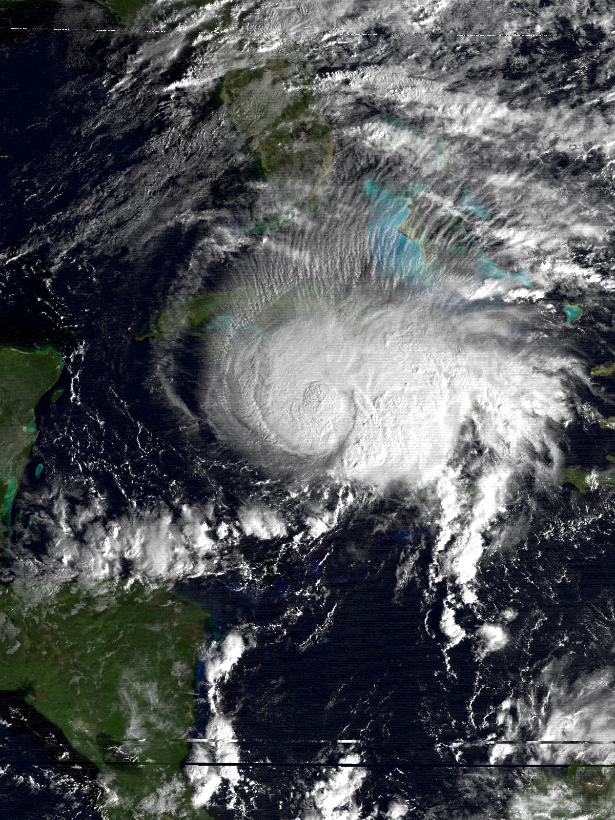 Hurricane Katrina near peak intensity prior to making landfall in Cuba on November 5, 1981